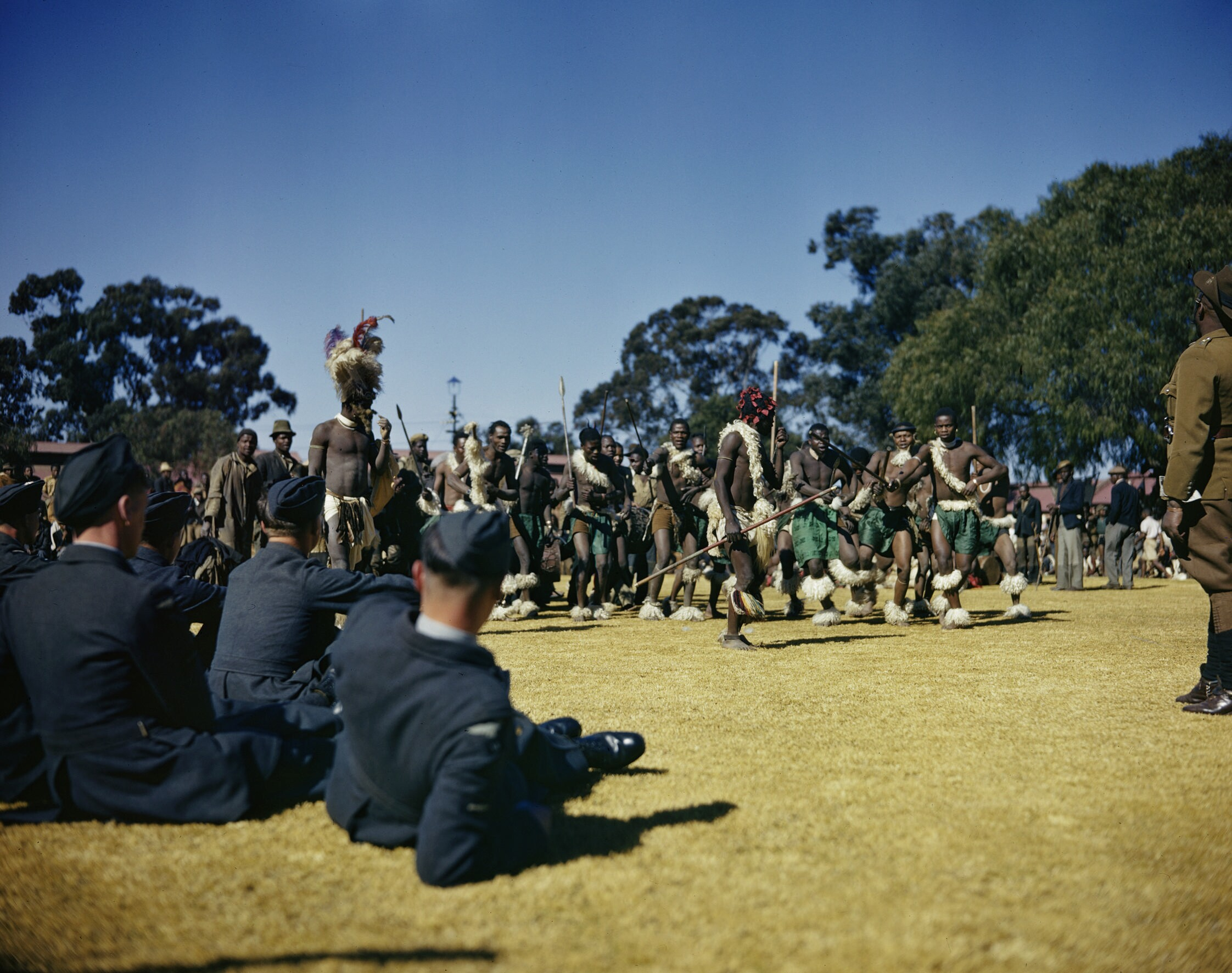 Royal Air Force Cadets in South Africa, September 1943 RAF cadets watching a Zulu war dance at Rose Deep Mine, Johannesburg.